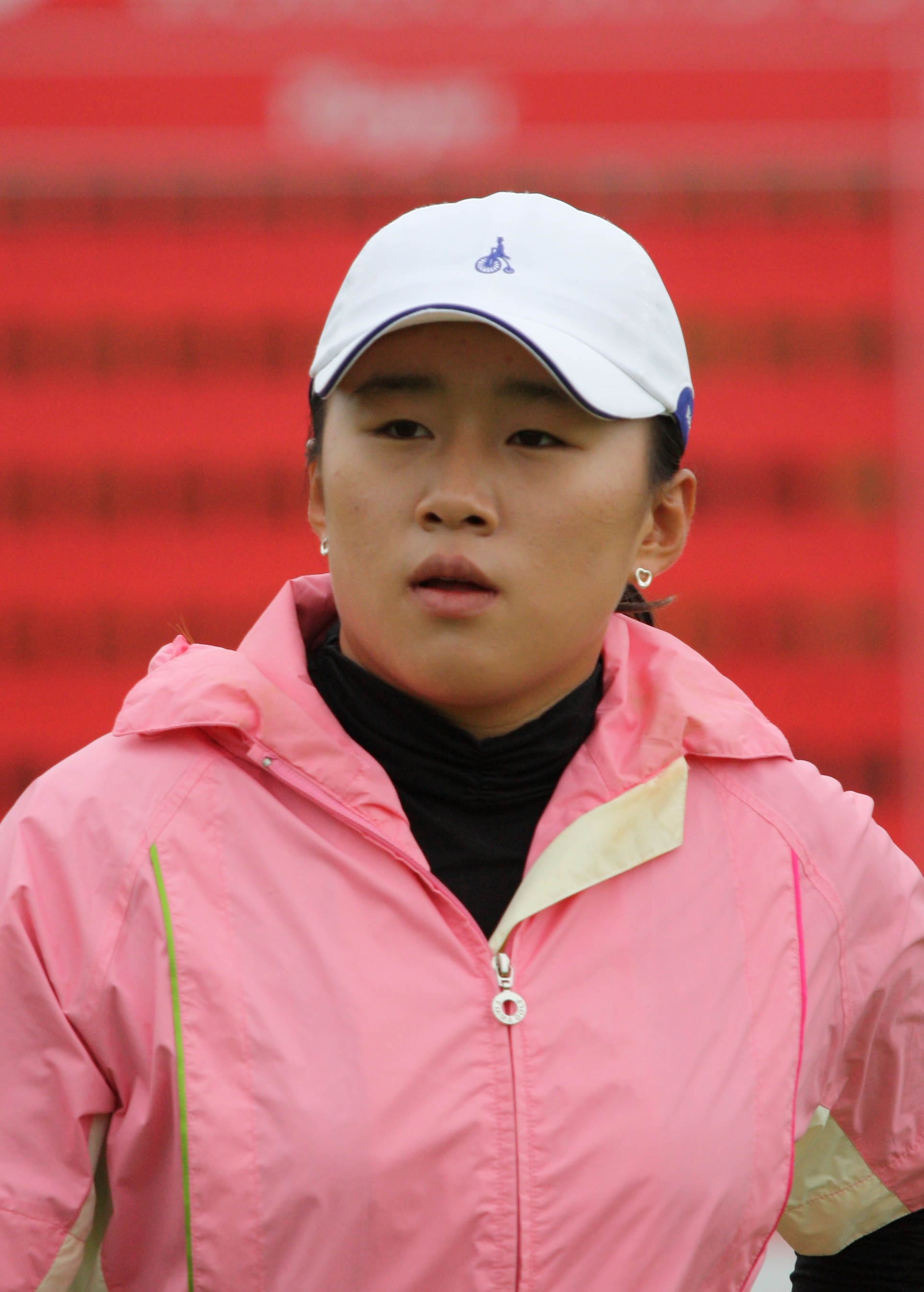 LYTHAM ST ANNES, UNITED KINGDOM - JULY 29: Amy Yang of South Korea on the 11th green during third practice round before 2009 Ricoh Women's British Open held at Royal Lytham & St Annes on July 29, 2009 in Lytham St Annes, England. (Photo by Wojciech Migda)